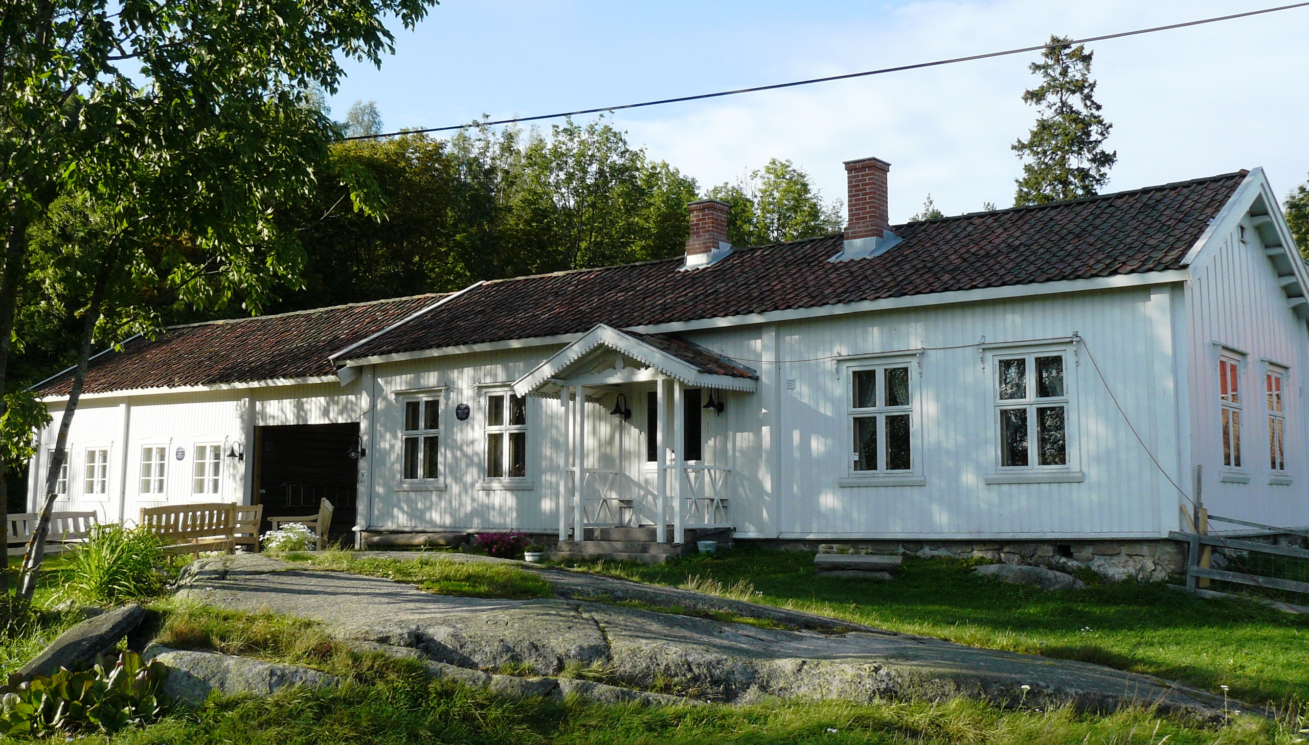 Bånkall gård, historical farm in Oslo, Norway